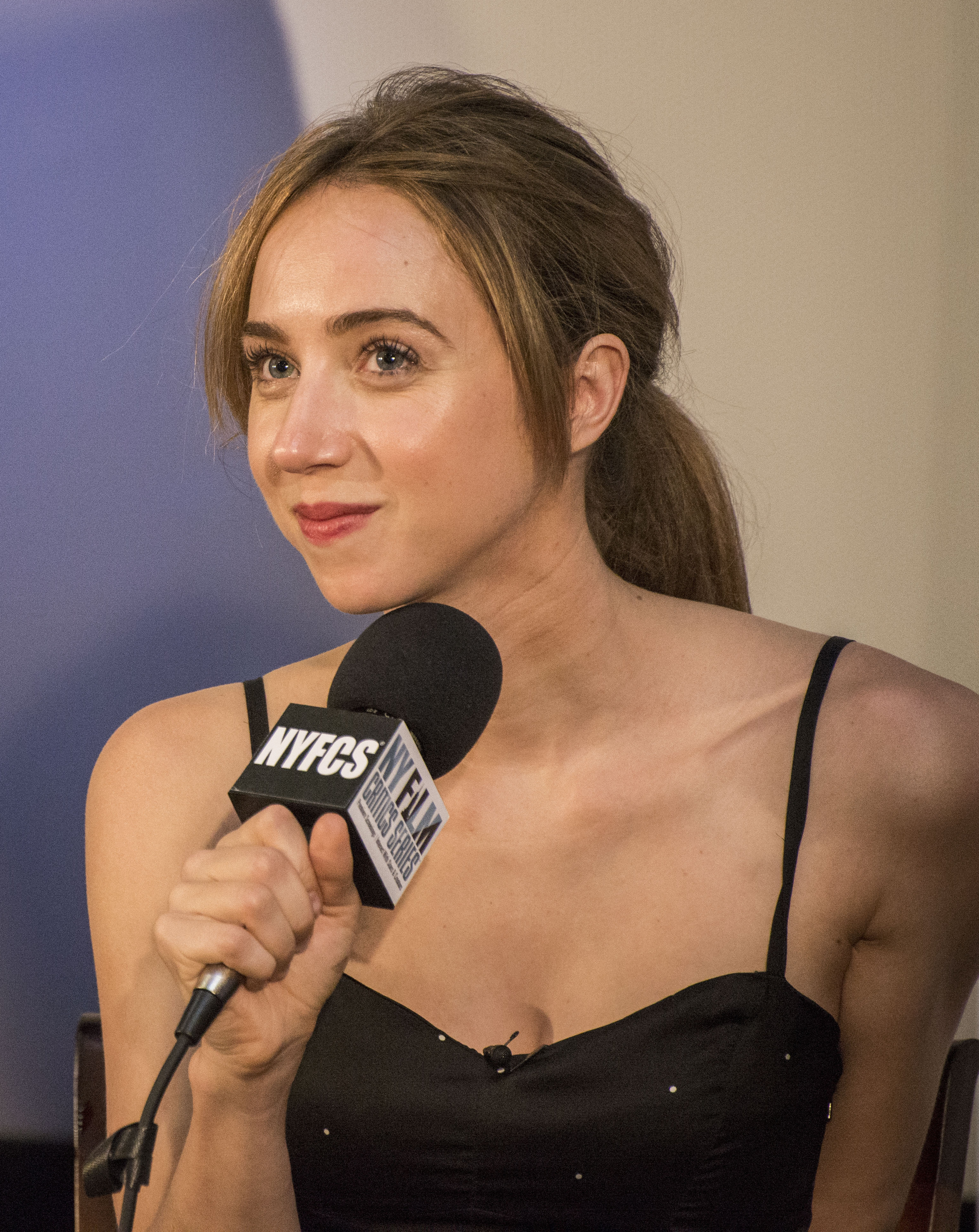 Zoe Kazan at the New York Film Critic Series screening of "What If"